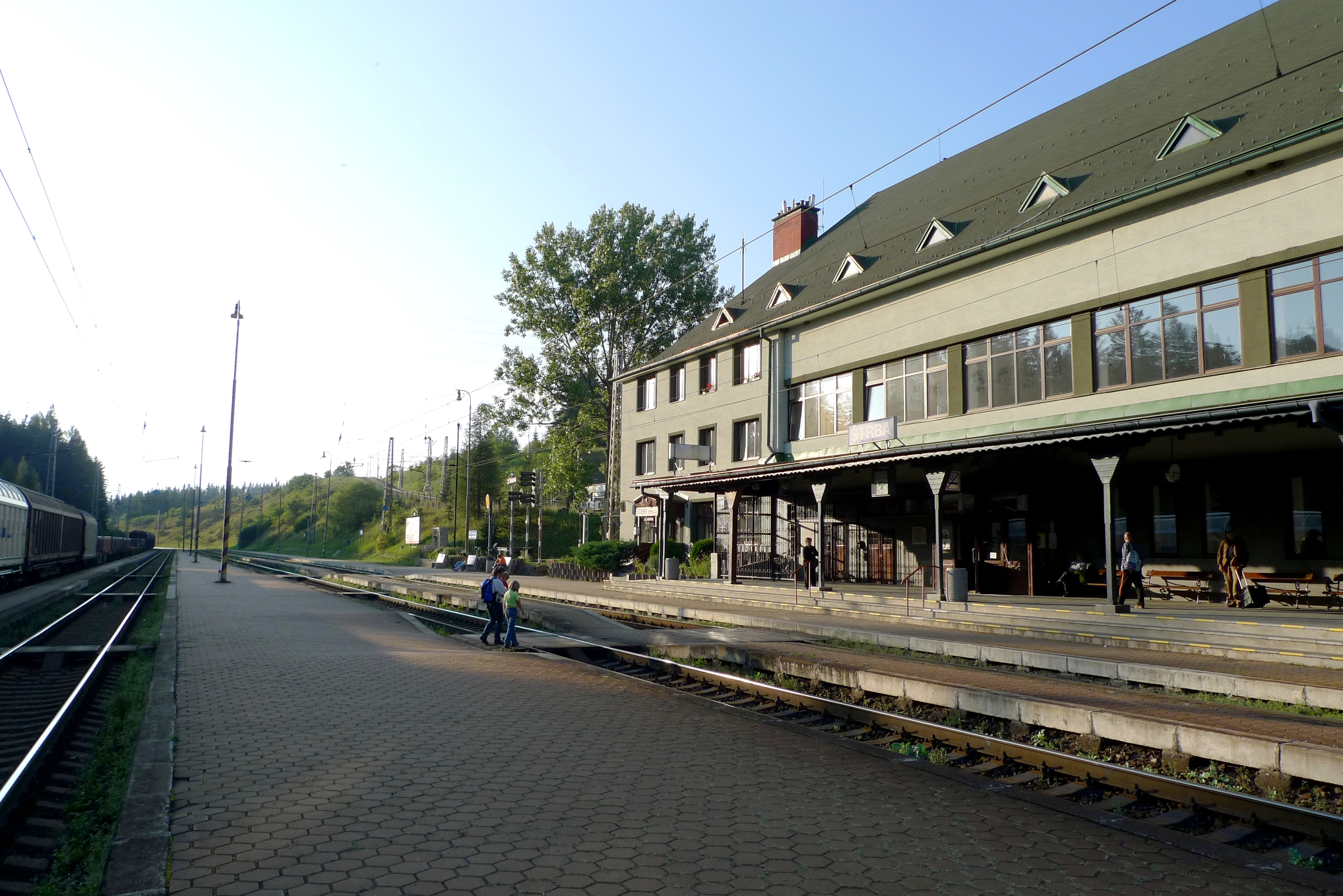 Štrba railway station in Slovakia